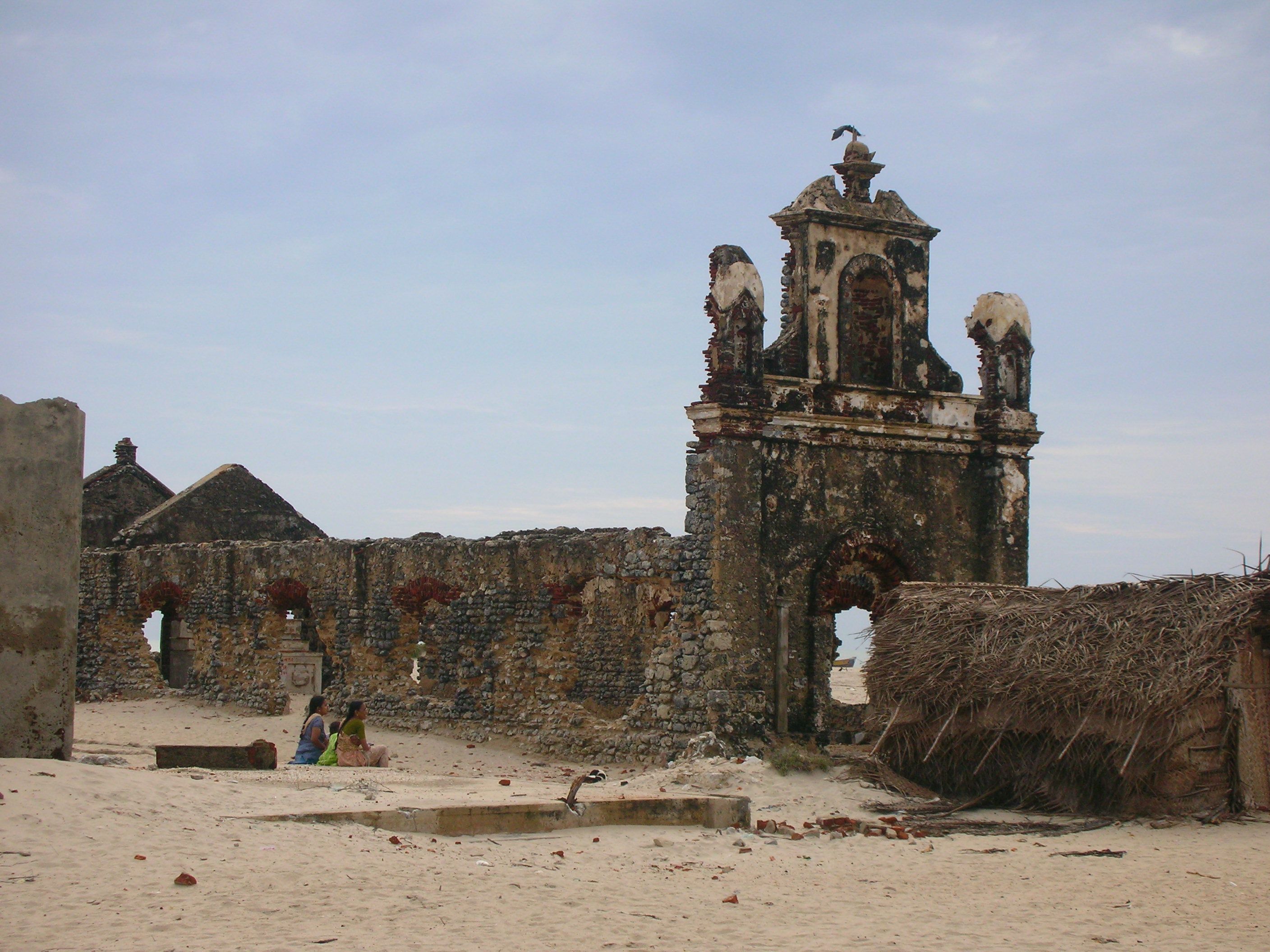 The remains of Danushkodi Church. The town was washed away in a 1964 cyclone.